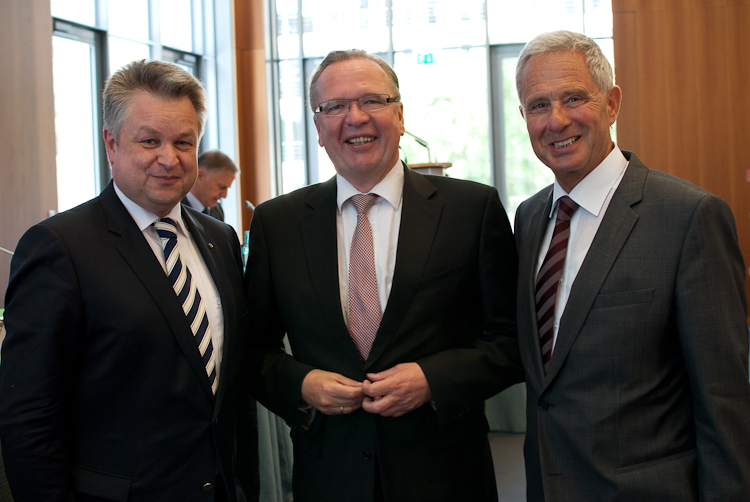 EM Germany President Rainer Wend surrounded by State Minister Michael Link and Honorary President Dieter Spöri.